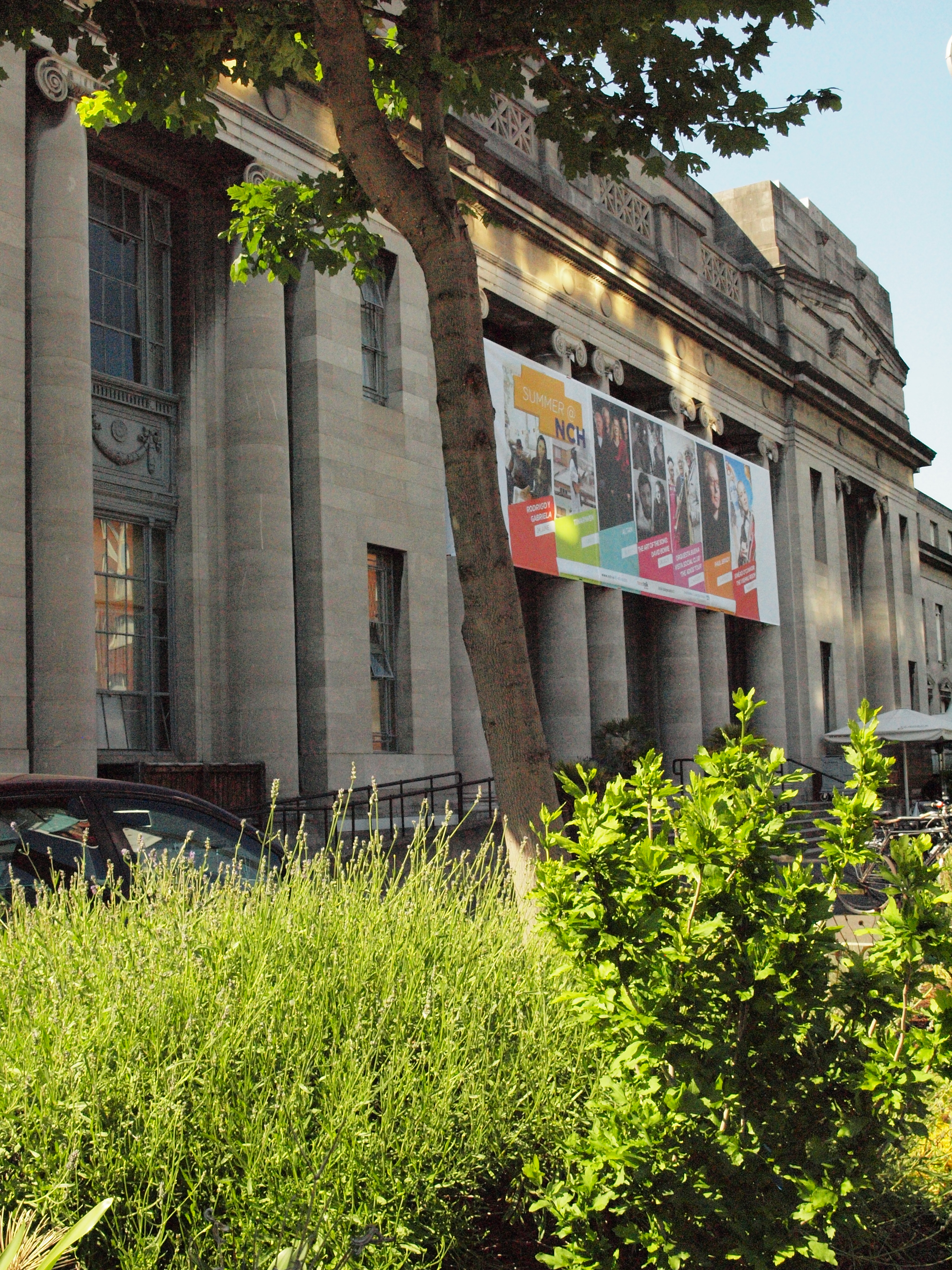 National Concert Hall